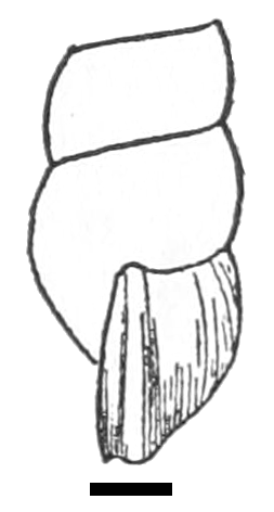 drawing of lateral view of a part shell of a shell of Oncomelania hupensis nosophora. The scale is 1 mm.